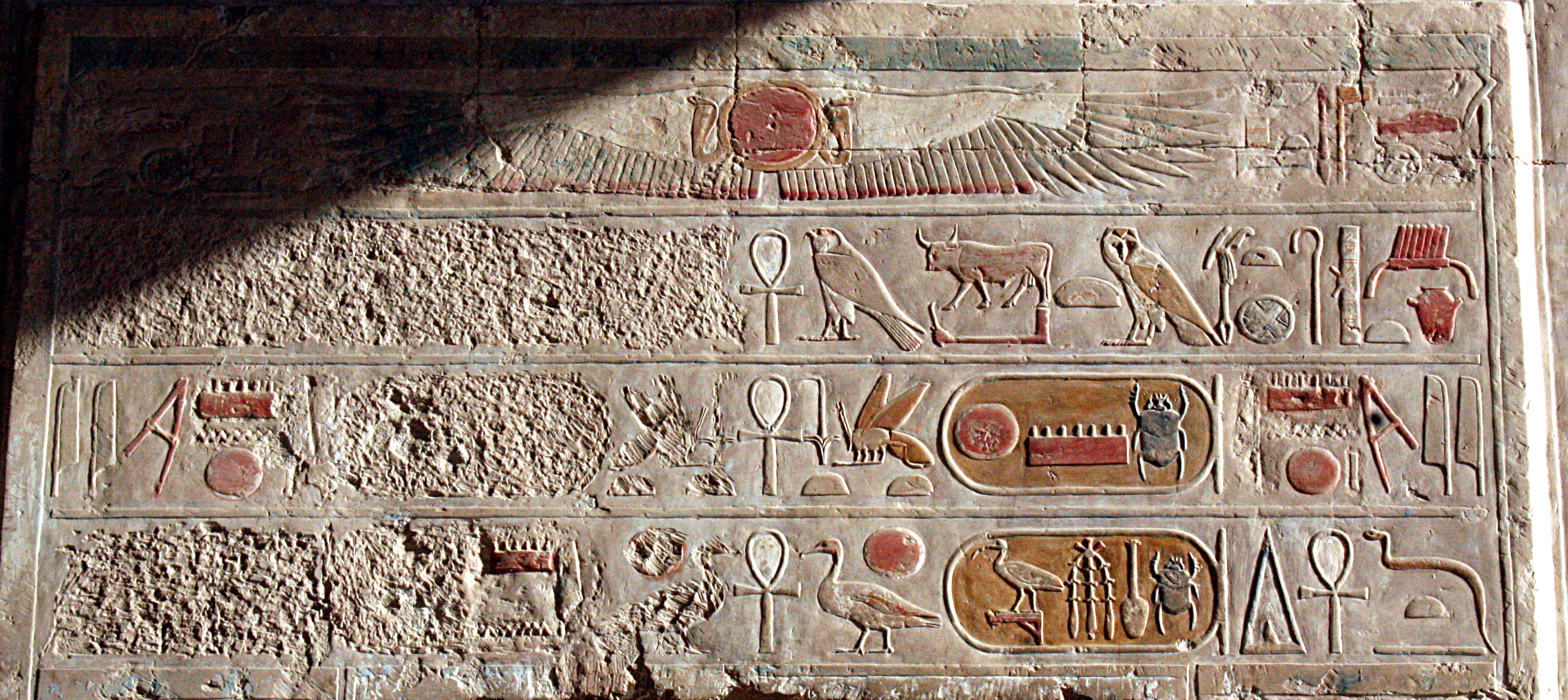 Censorship: Hatshepsut censored (Damnatio memoriae). Temple at Deir el-Bahari.